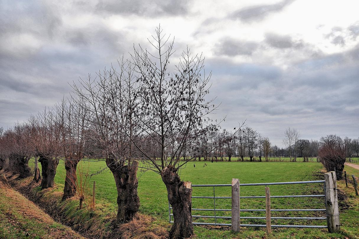 landscape Meuhoek, Netherlands